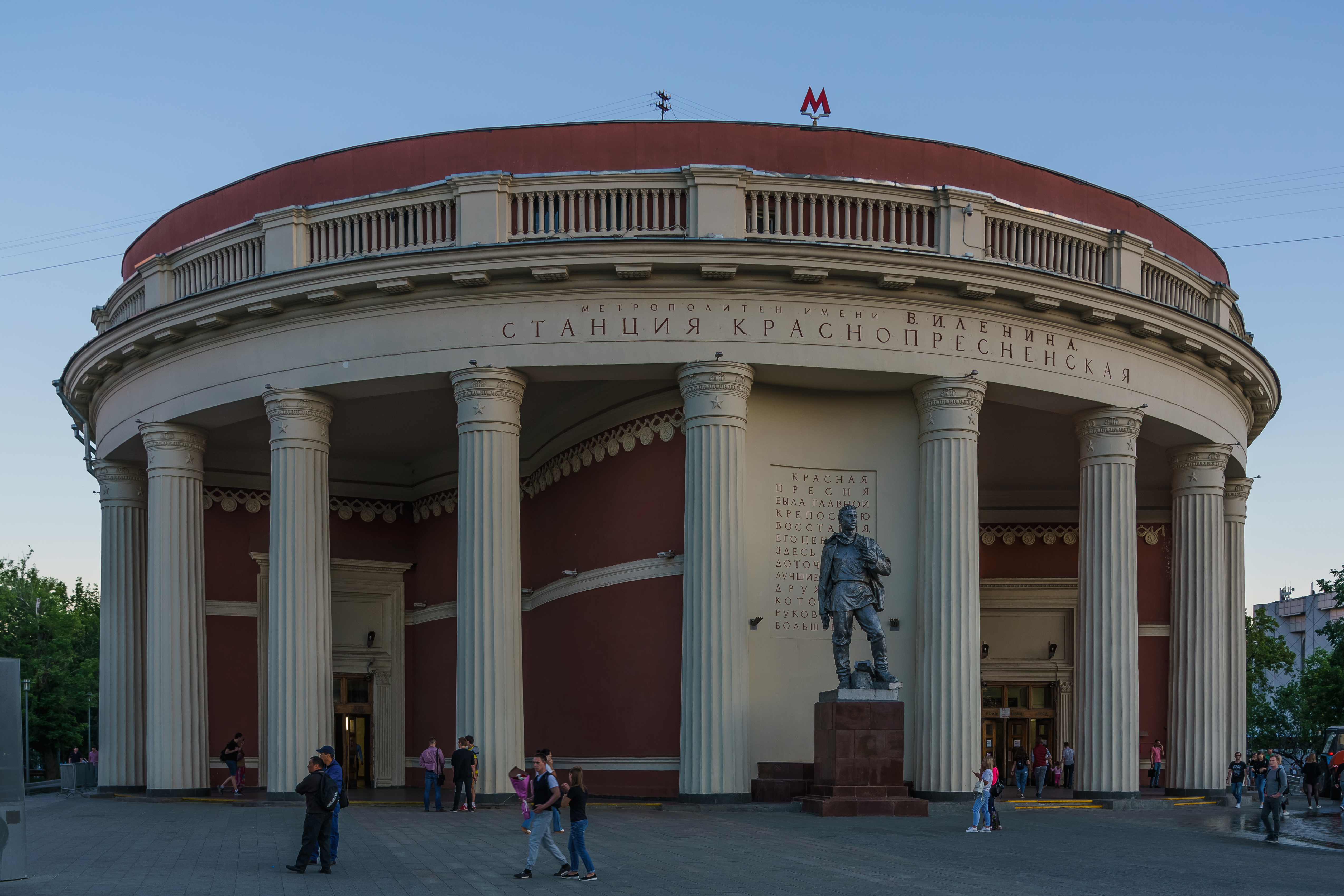 Entrance building of Krasnopresnenskaya metro station in Moscow, Russia